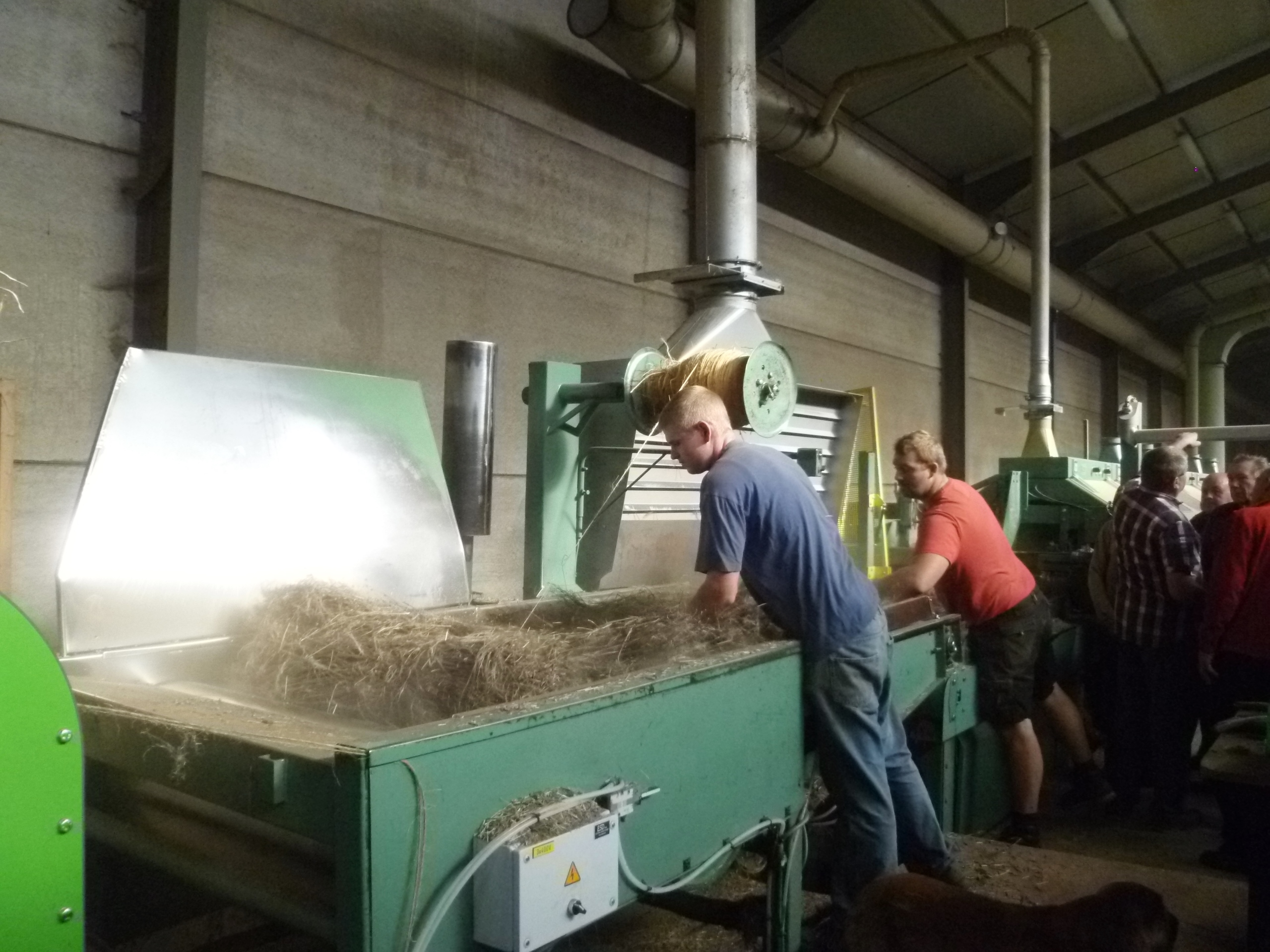 Scutching machine for flax